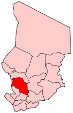 Map of Chad showing Chari-Baguirmi region.